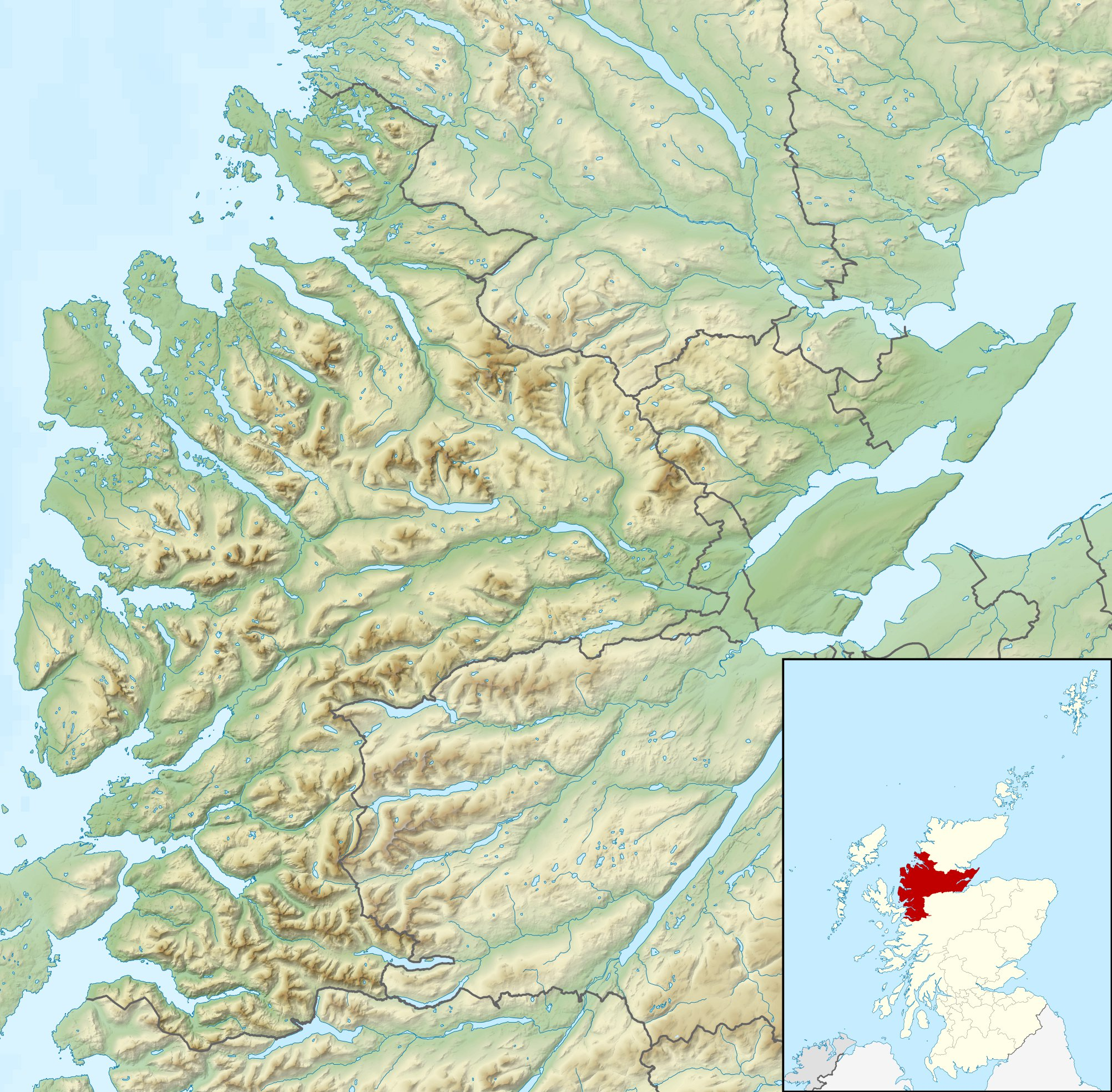 Relief map of Ross and Cromarty, UK. Equirectangular map projection on WGS 84 datum, with N/S stretched 180% Geographic limits: West: 5.9W East: 3.7W North: 58.2N South: 57.0N